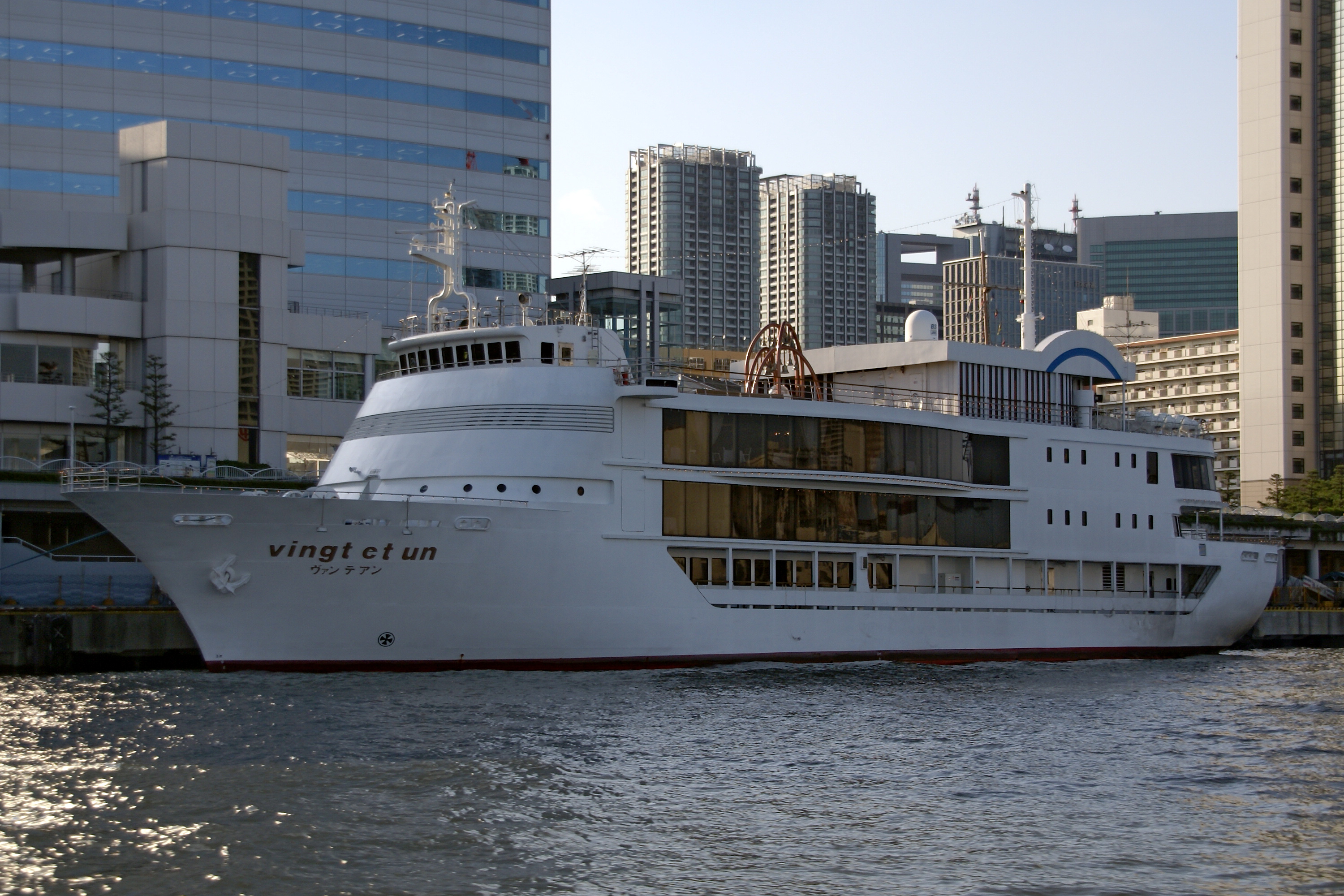 Vingt et un at Port of Tokyo in Minato-ku, Tokyo, Japan